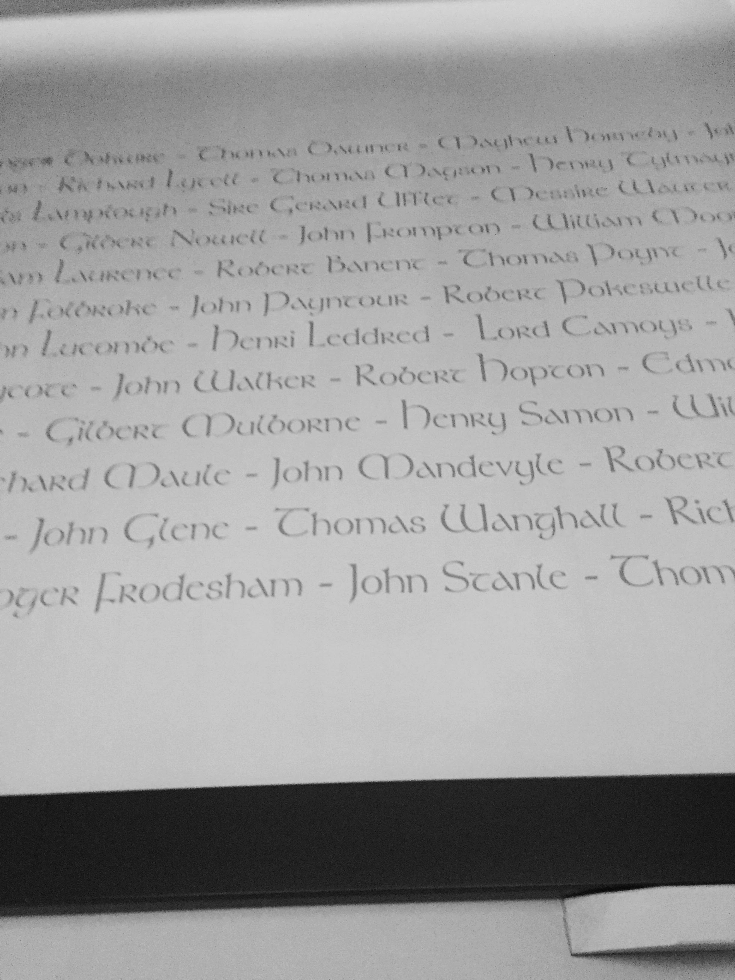 A list of English archers killed at Agincourt, as recorded in the village's museum